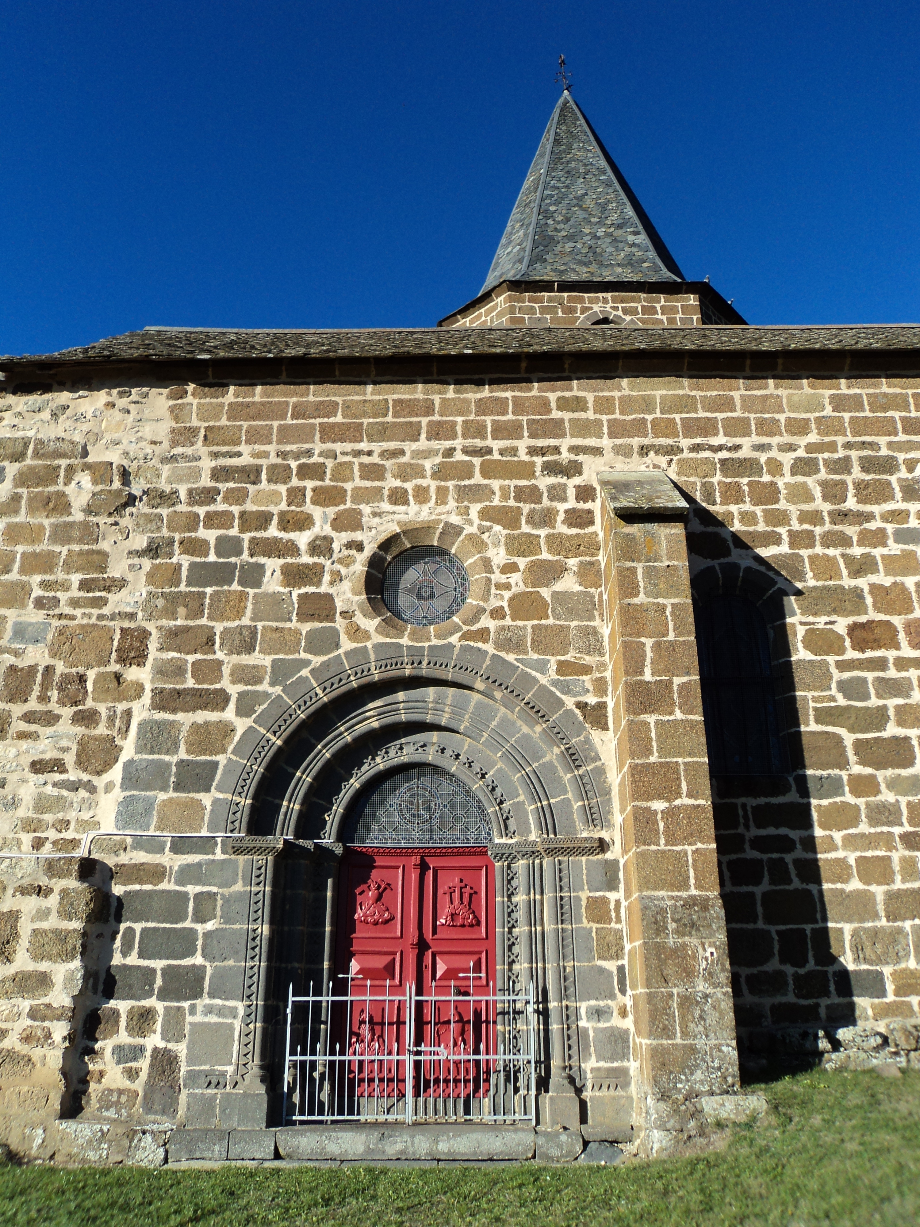 Object location45° 04′ 12.36″ N, 3° 08′ 16.44″ E .